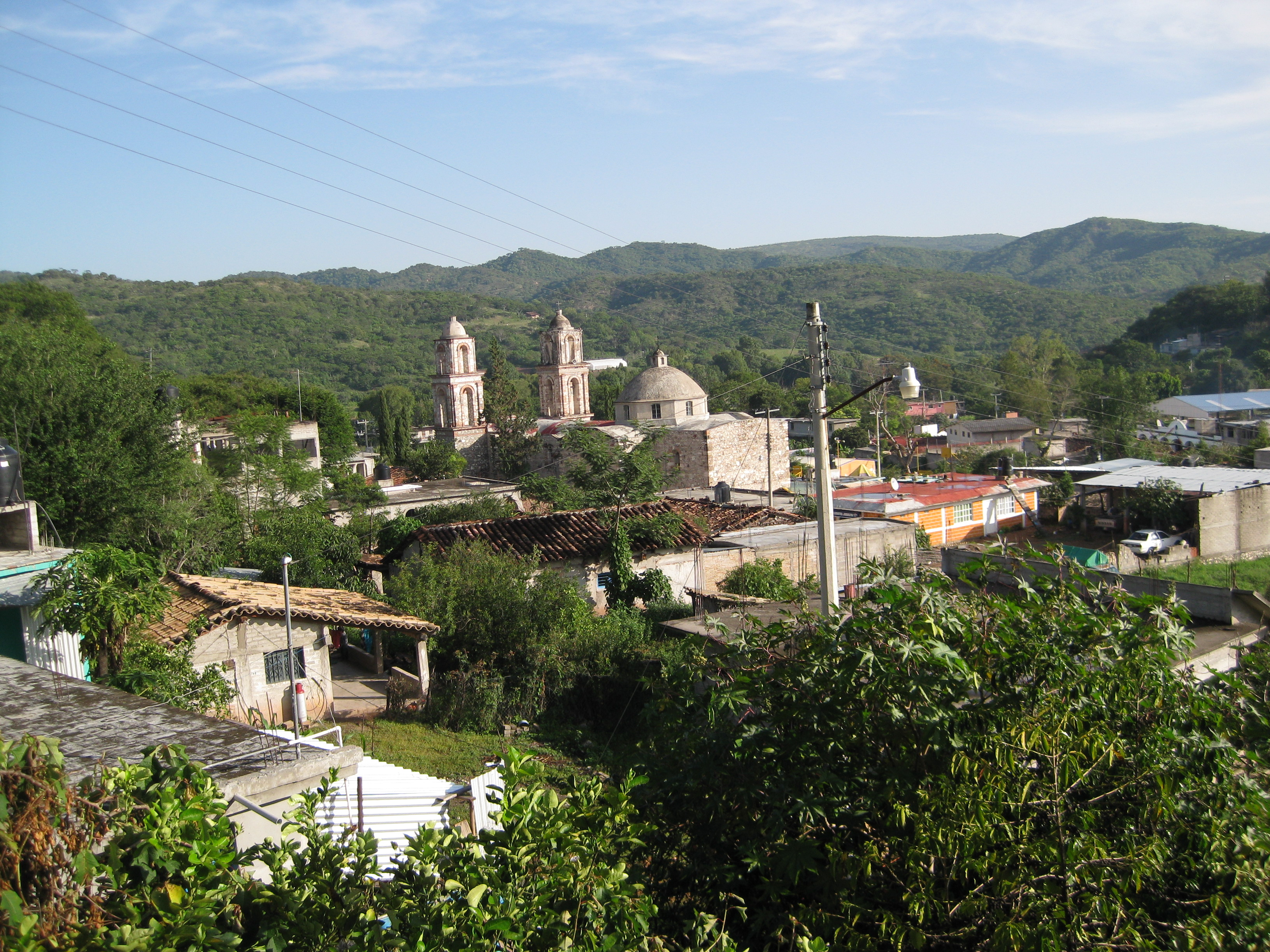 Panoramic picture of Santiago del Rio town.